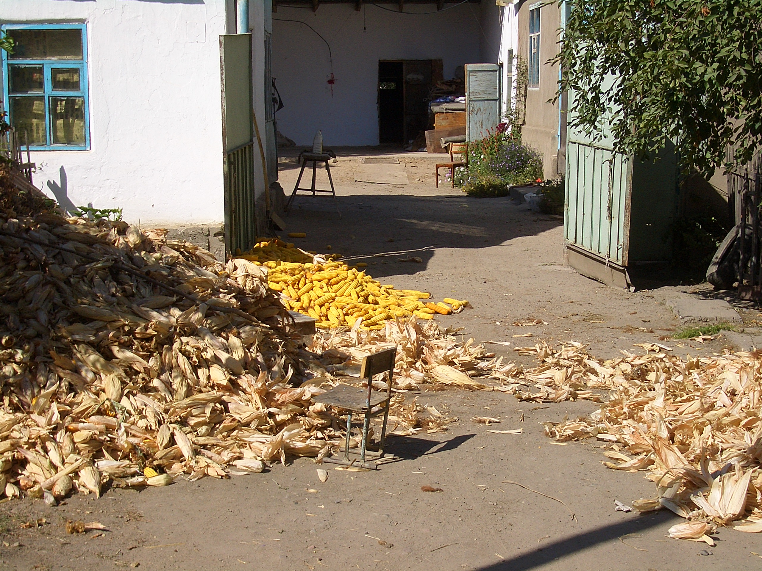 Corn (maize) being husked in front of a house in Milyanfan, Kyrgyzstan.